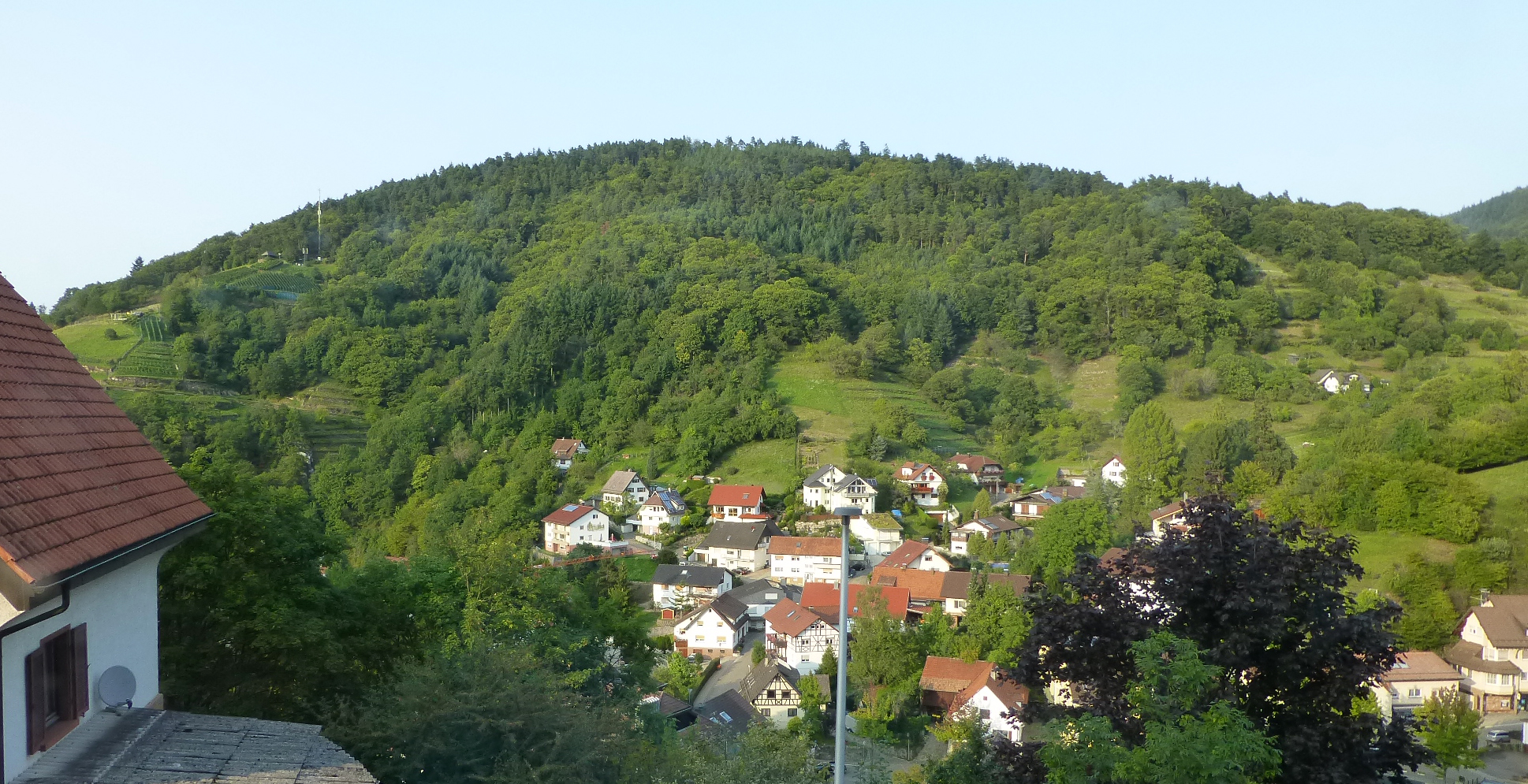 Bühlertal with the vineyard Engelsfelsen with a 75° slope at left.